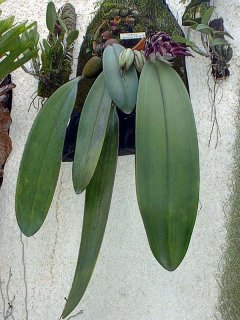 A plant of Bulbophyllum fletcherianum standing aside a Cattleya walkeriana to show the huge dimensions of its leaves.